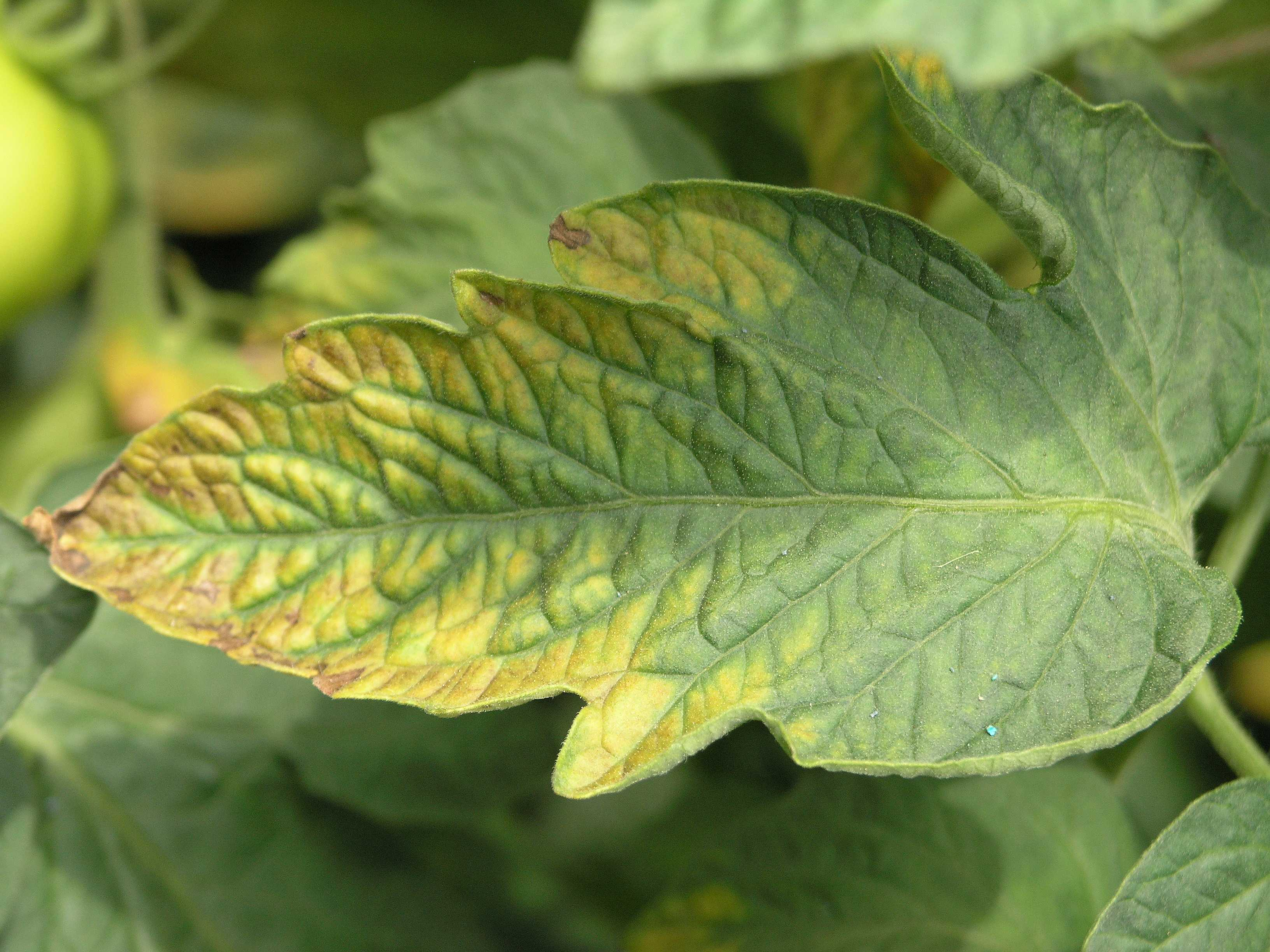 Tomate Blatt Chlorose durch Kalimangel / tomato leaf potassium deficiency